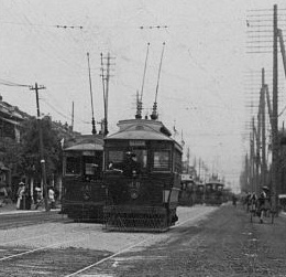 View down Tokyo street with tram cars in center background. 1905年の東京街路、Croped Image:Tokyo street 1905.jpg